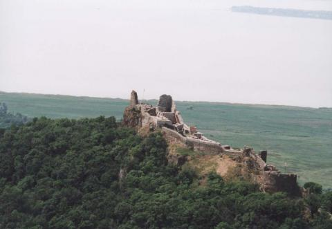 Szigliget - castle, Hungary, aerialphotography